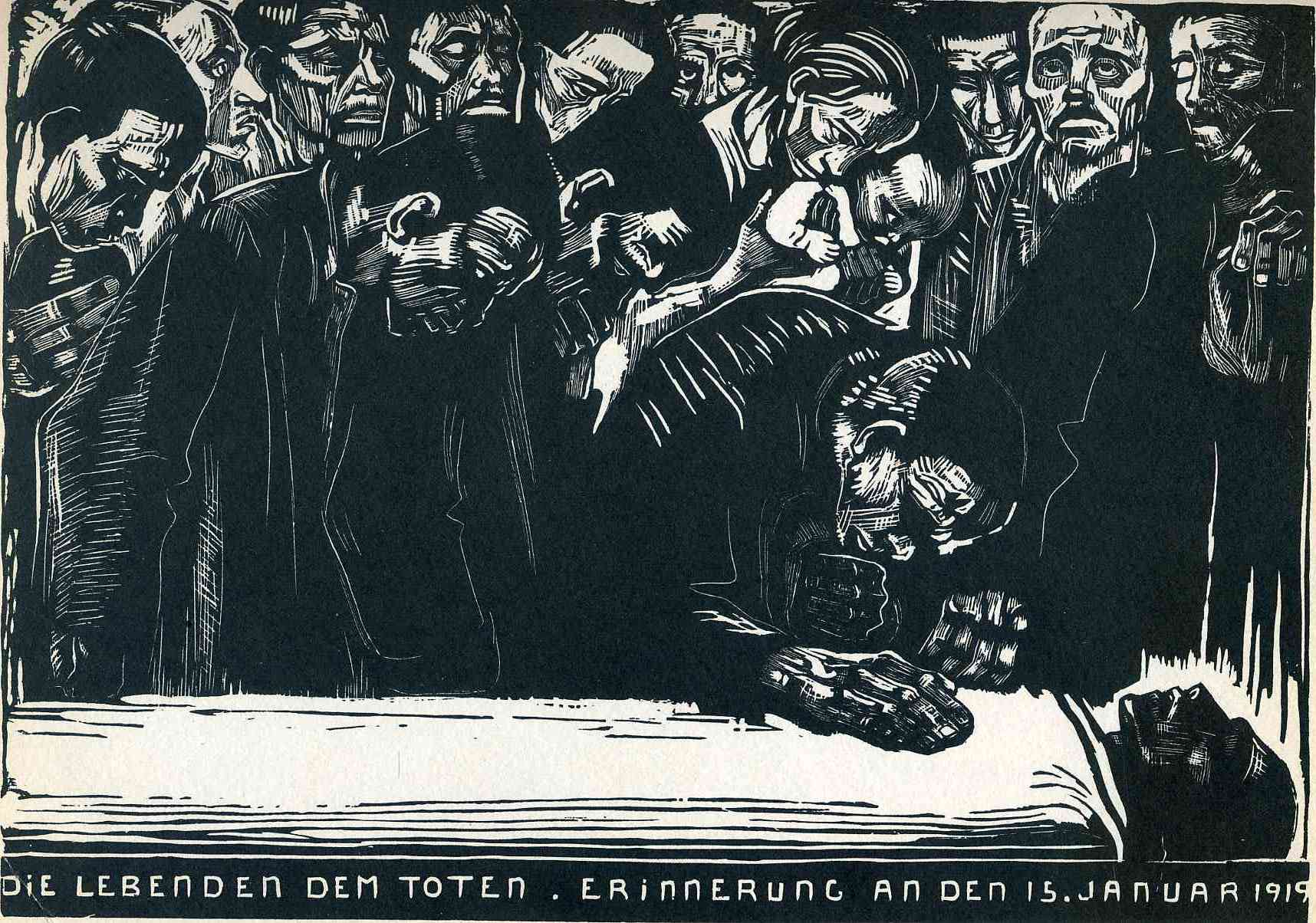 Memorial for Karl Liebknecht